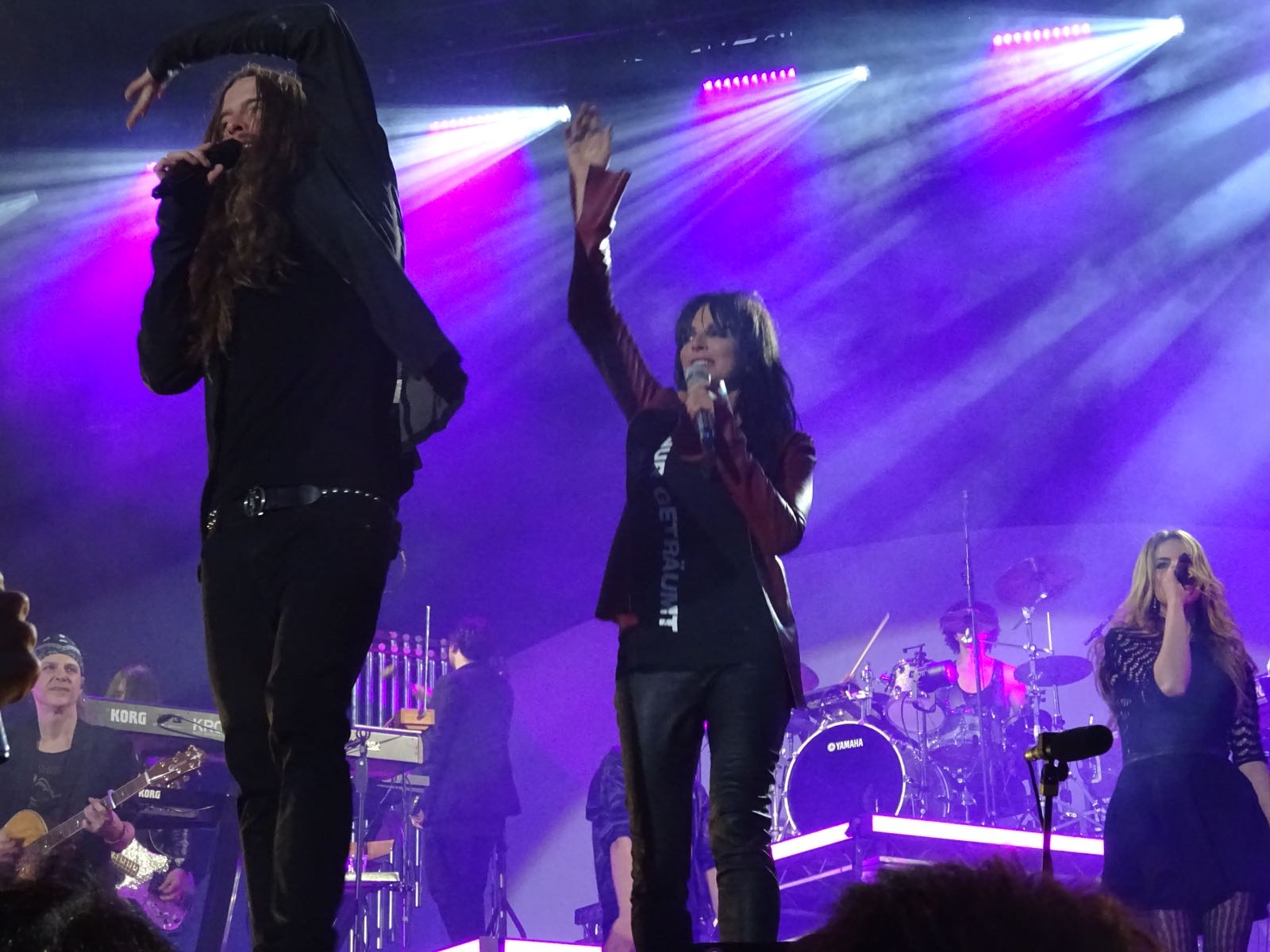 Nena on stage at Zitadelle, Berlin on 22 June 2018 flanked by her twin children Sakias and Larissa